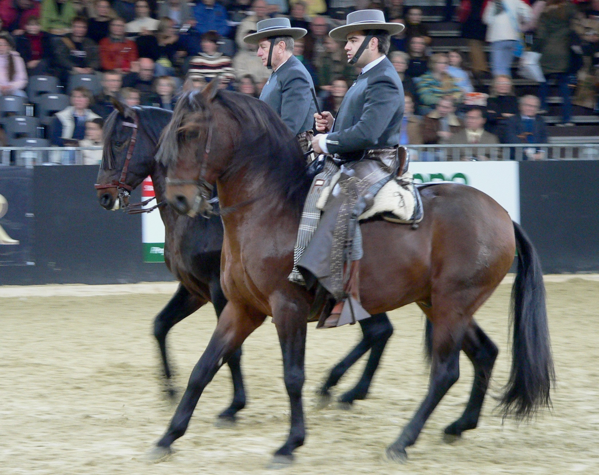 Andalusian horses - Famous horseman Mr Rafael Peralta